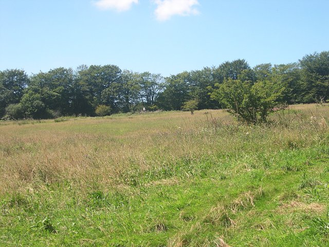 Sylvia's Meadow. This meadow is an SSSI and contains some rare plant species. It is a rare example of unimproved herb-rich pasture land which survived being ploughed through having a military camp on it during World War II.